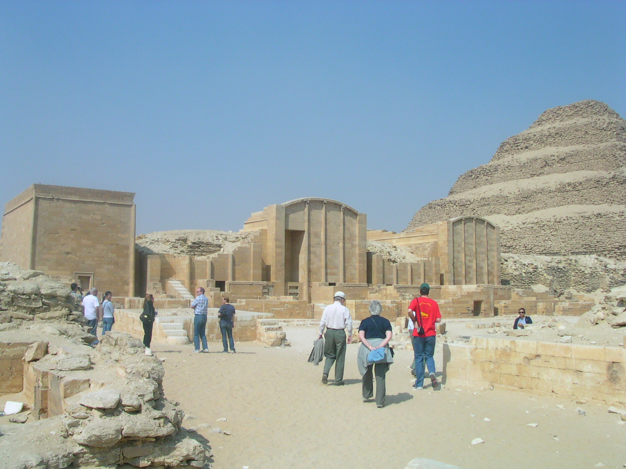 Step pyramid, near Cairo, Egypt. February 2007.